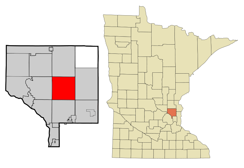 This map shows the incorporated and unincorporated areas in Anoka County, highlighting Ham Lake in red. This file has been updated to reflect the recent incorporation of new municipalities.